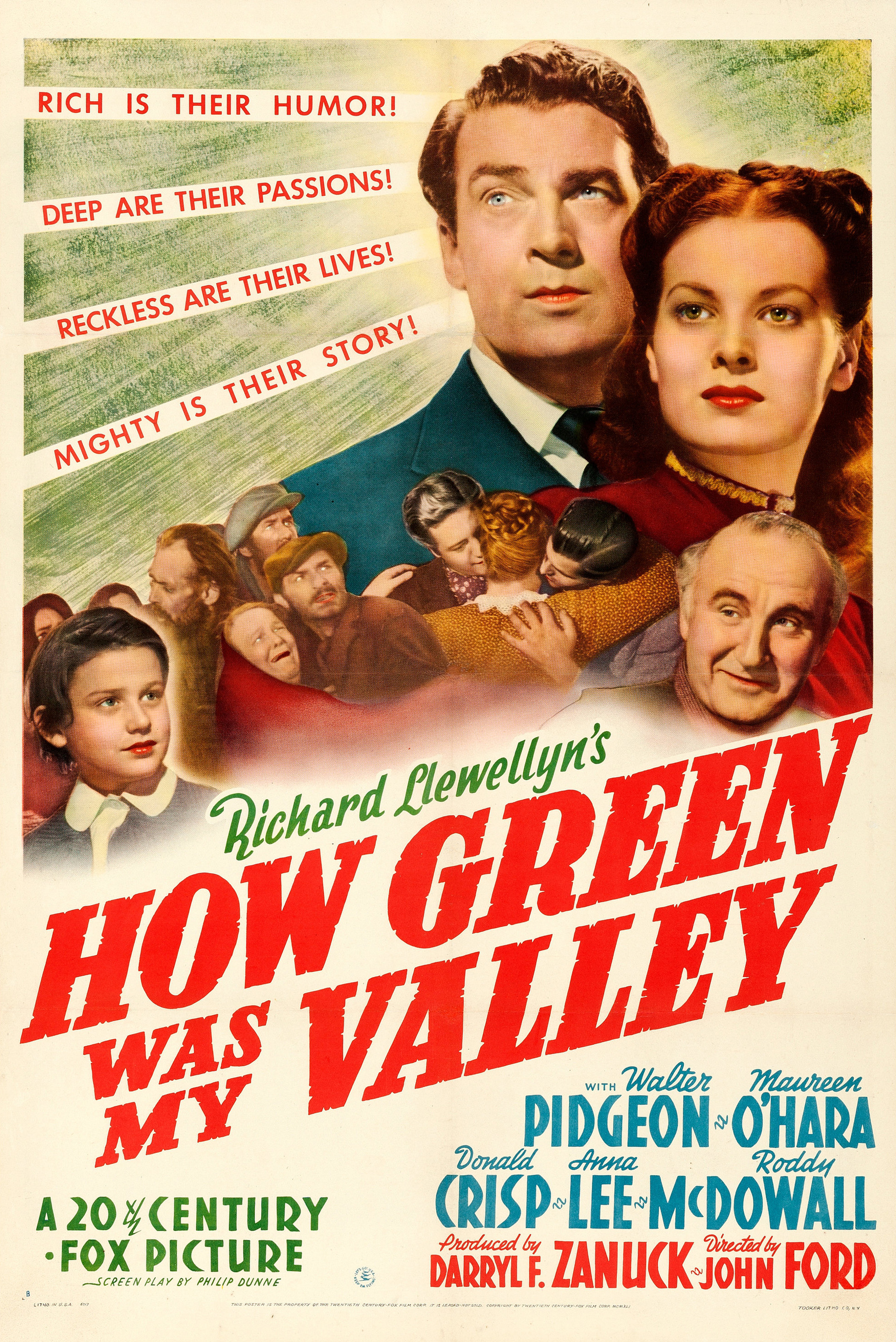 "Style B" theatrical release poster for the 1941 film How Green Was My Valley.